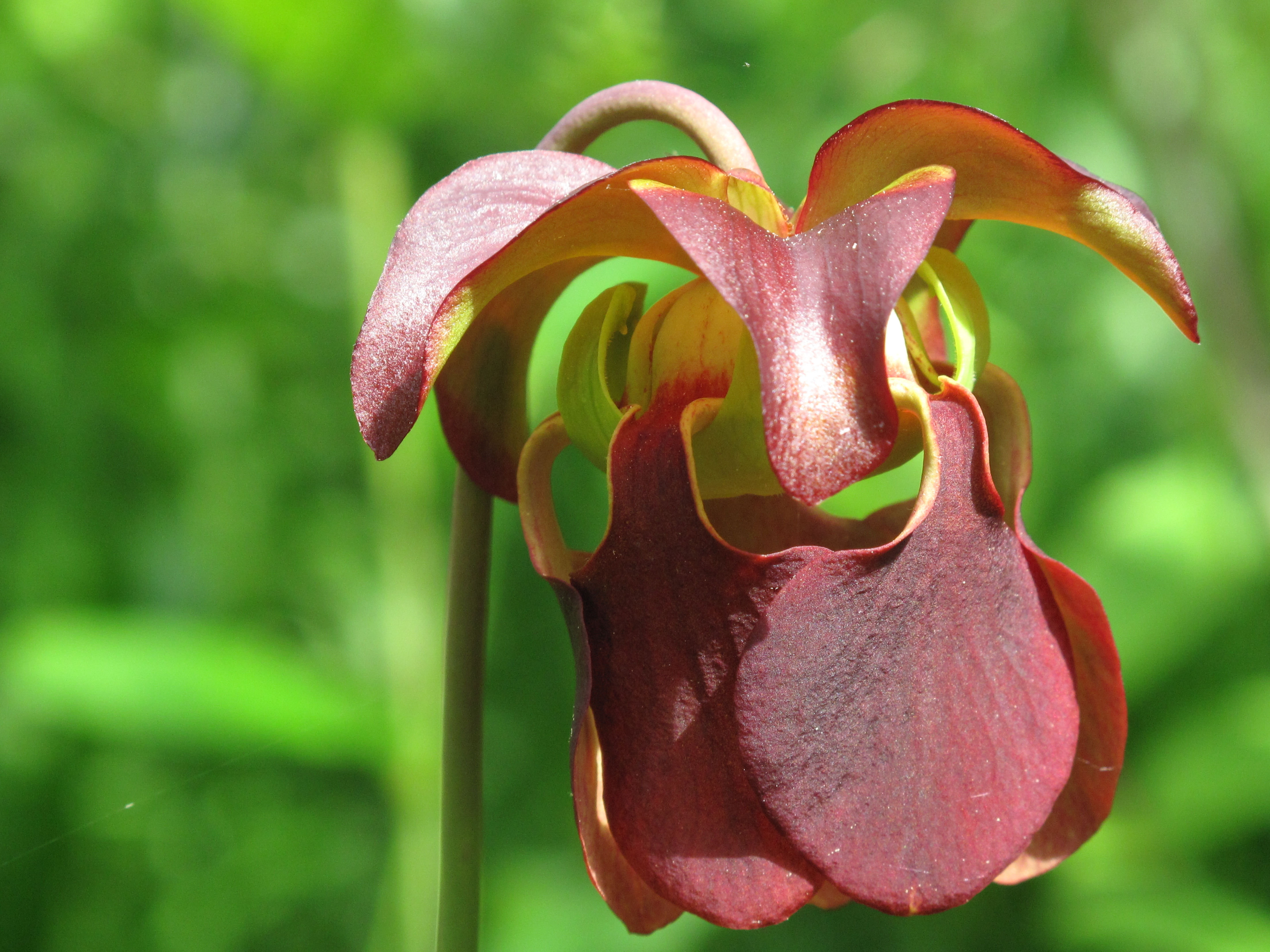 Mountain Sweet Pitcher Plant flower